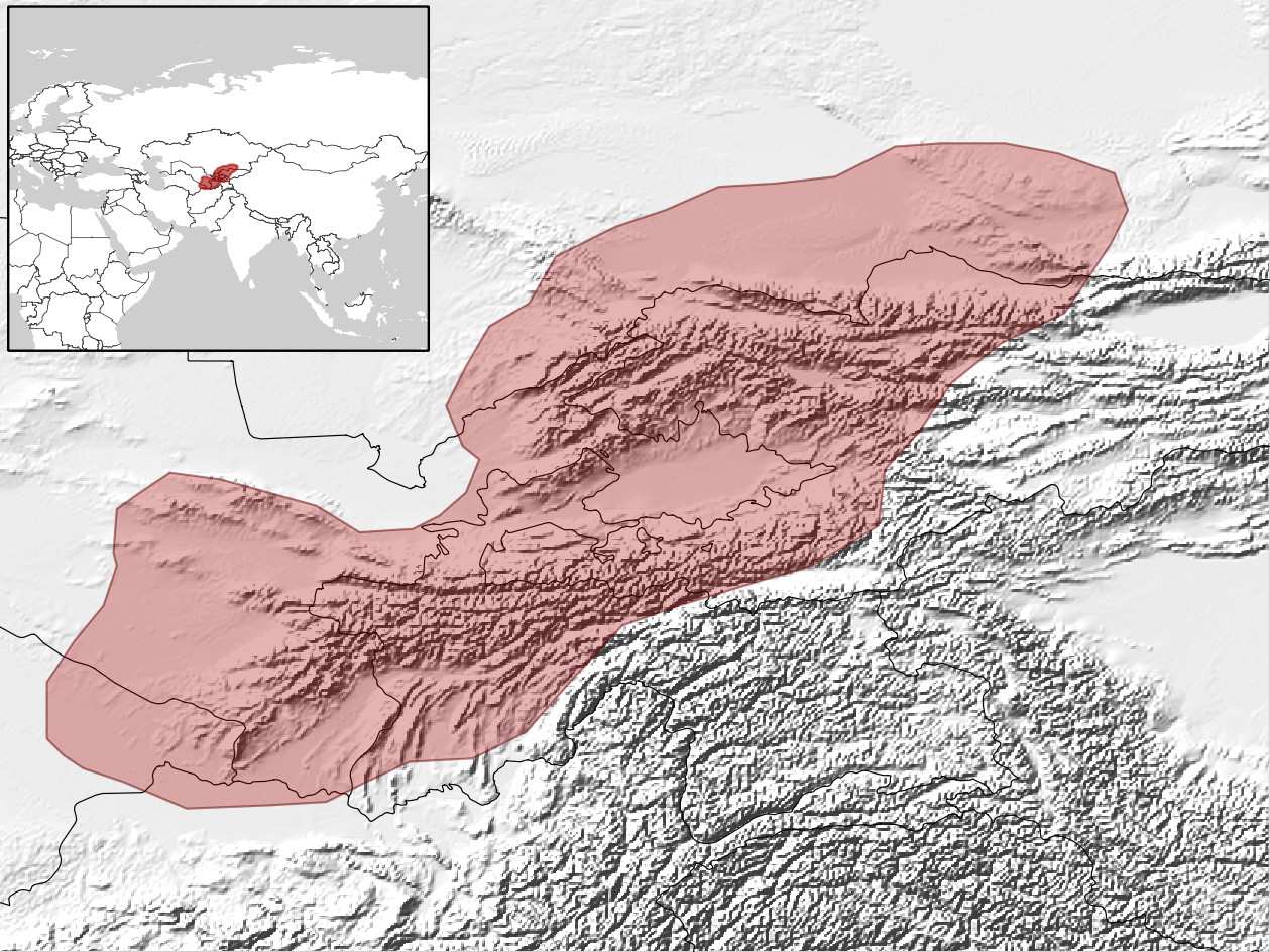 geographic distribution of Ablepharus deserti